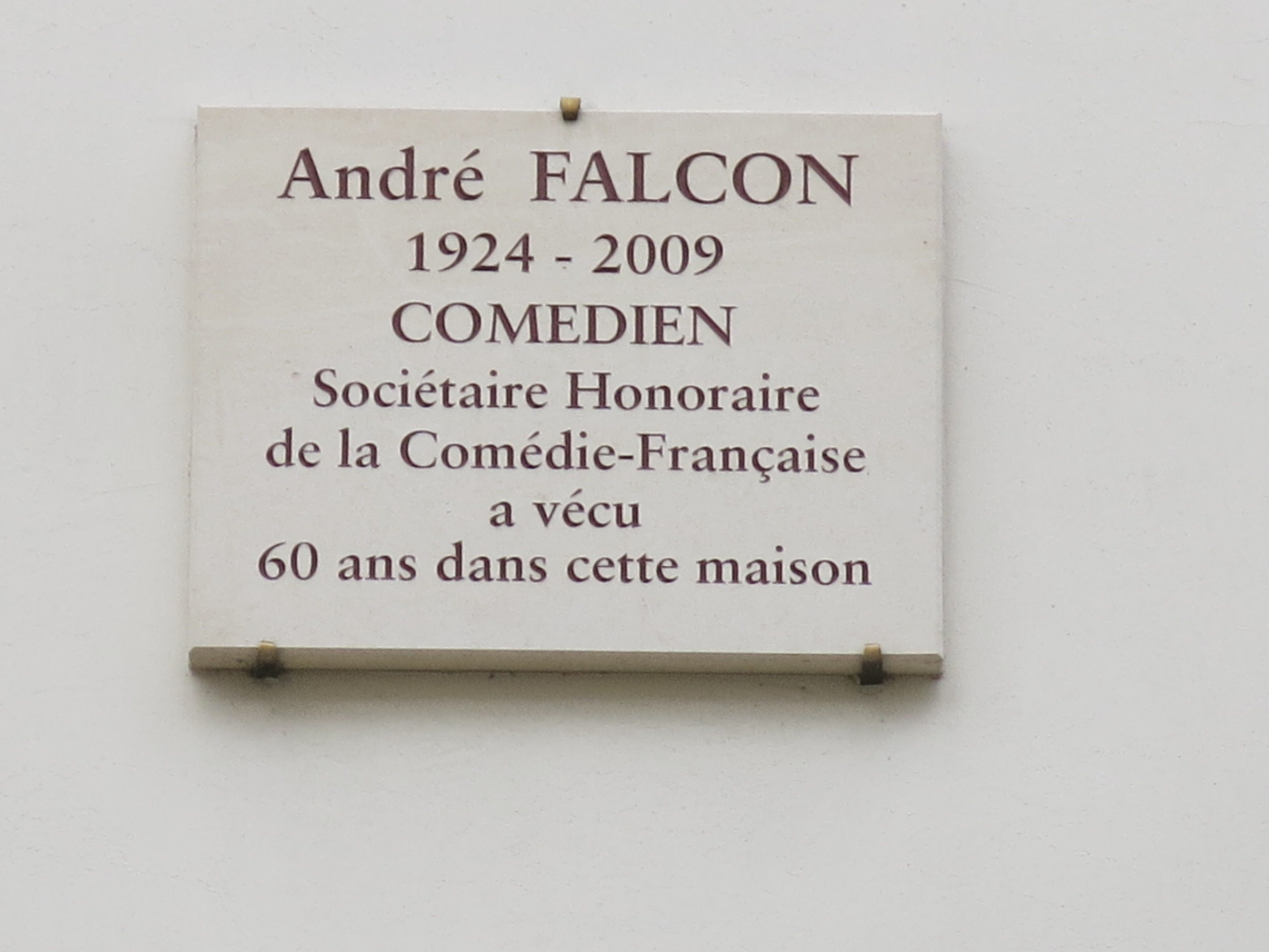 Plaque in memory of the French actor André Falcon. 3bis rue de Vaugirard, Paris 6th arr.